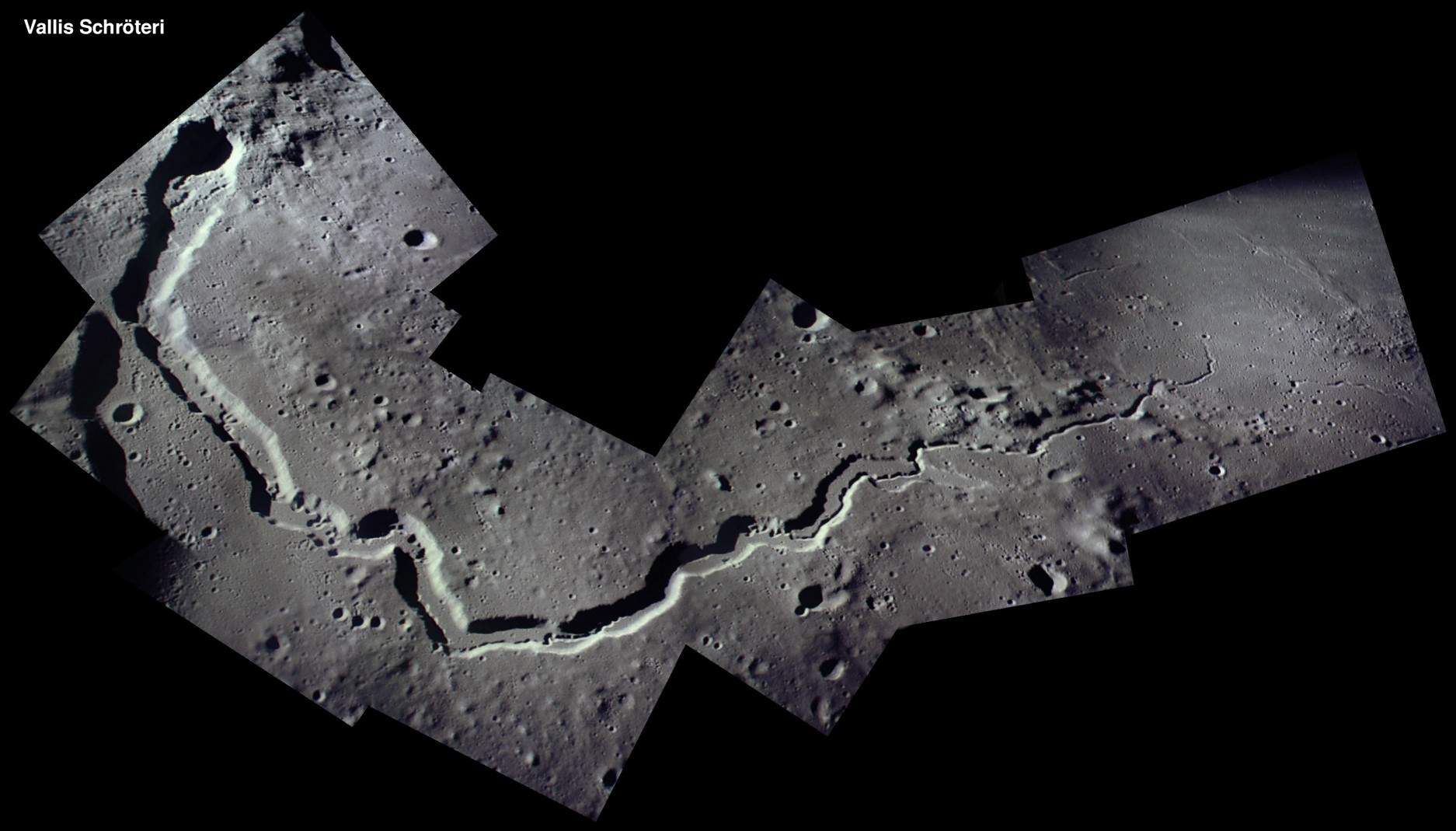 A rille on the Moon, taken by an Apollo 15 crewmember with a Hasselblad camera from lunar orbit. Source NASA. See long discussion beginning at 213:02 at